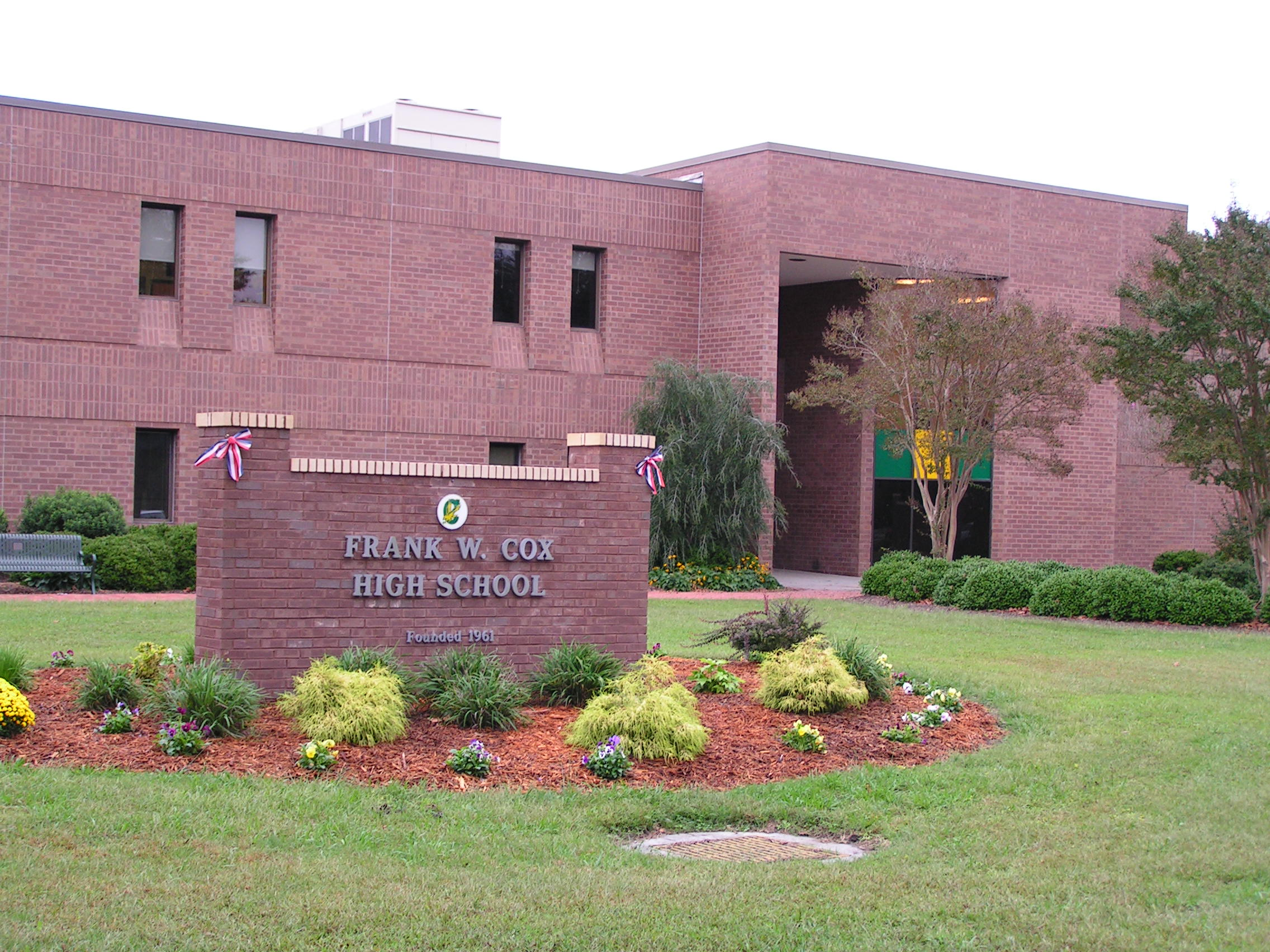 Third entrance of Frank W. Cox High School in Virginia Beach, USA, with a plaque in the foreground. Approximate elevation: 4 m.